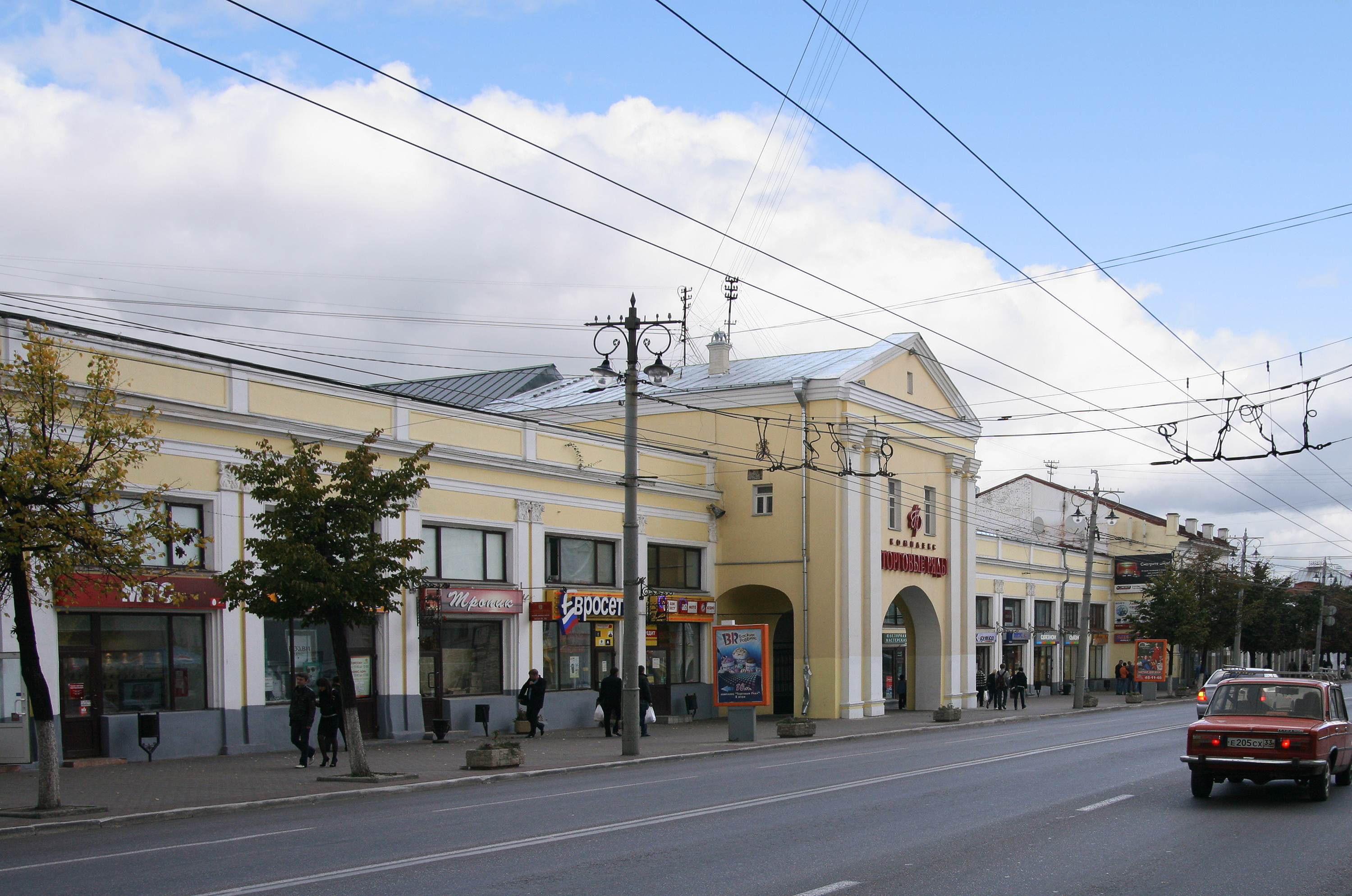 Trade Rows, 1787-1792, Vladimir